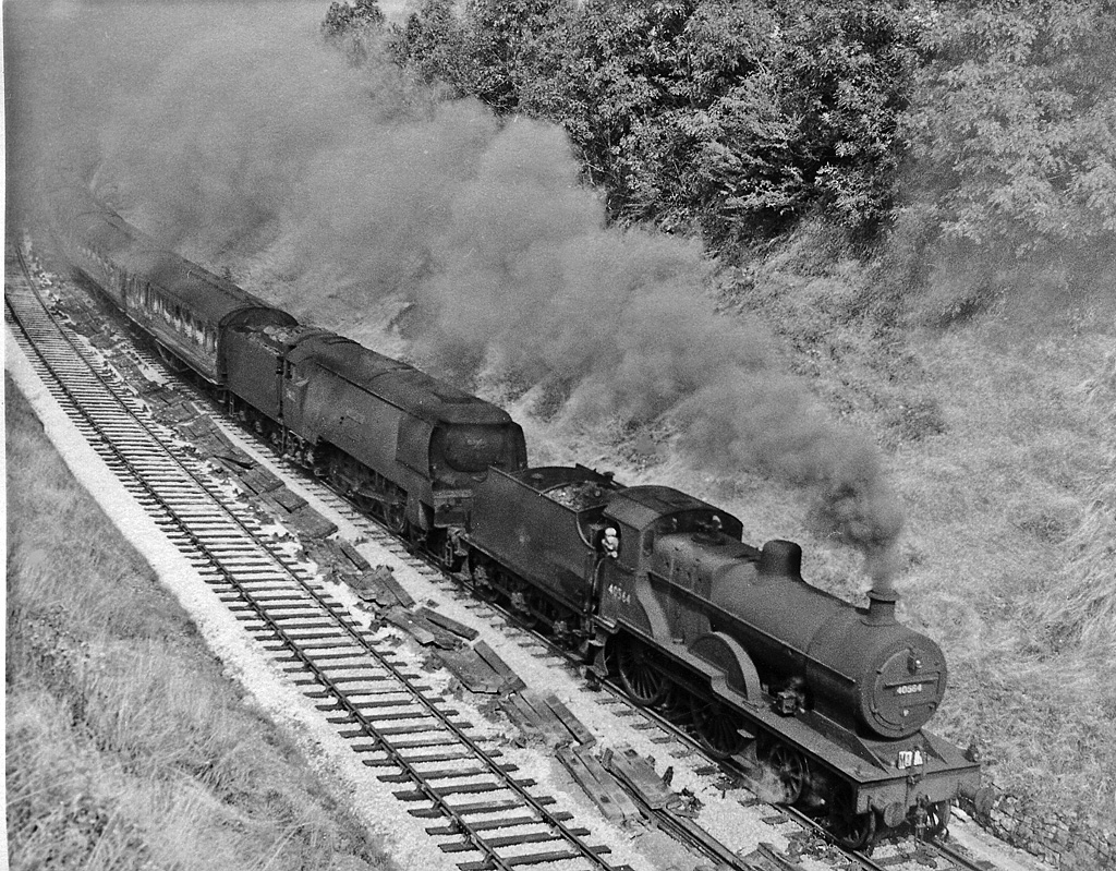 Down S&D express approaching Chilcompton. View northward, down onto the Somerset & Dorset (Bath - Bournemouth) line just before the short tunnel a mile or so before Chilcompton Tunnel, on the gruelling eight miles of 1-in-50/60 up from Radstock to the Mendips summit at Masbury. This Summer Saturday express battling up the bank is the 07.00 from Cleethorpes to Bournemouth West, headed by LMS 2P 4-4-0 No. 40564 piloting SR Bulleid Light Pacific No. 34101 'Hartland'. These engines would have taken over at Bath (Green Park), the train having been hauled by a variety of LNE and LMS locomotives on its extraordinary journey via Lincoln (St Marks), Nottingham (Midland), Leicester (Midland) and Birmingham (New St.). (Before the War it left the S&D at Templecombe and went to Sidmouth and Exmouth by the SR)! Who on earth would have travelled the whole way?!